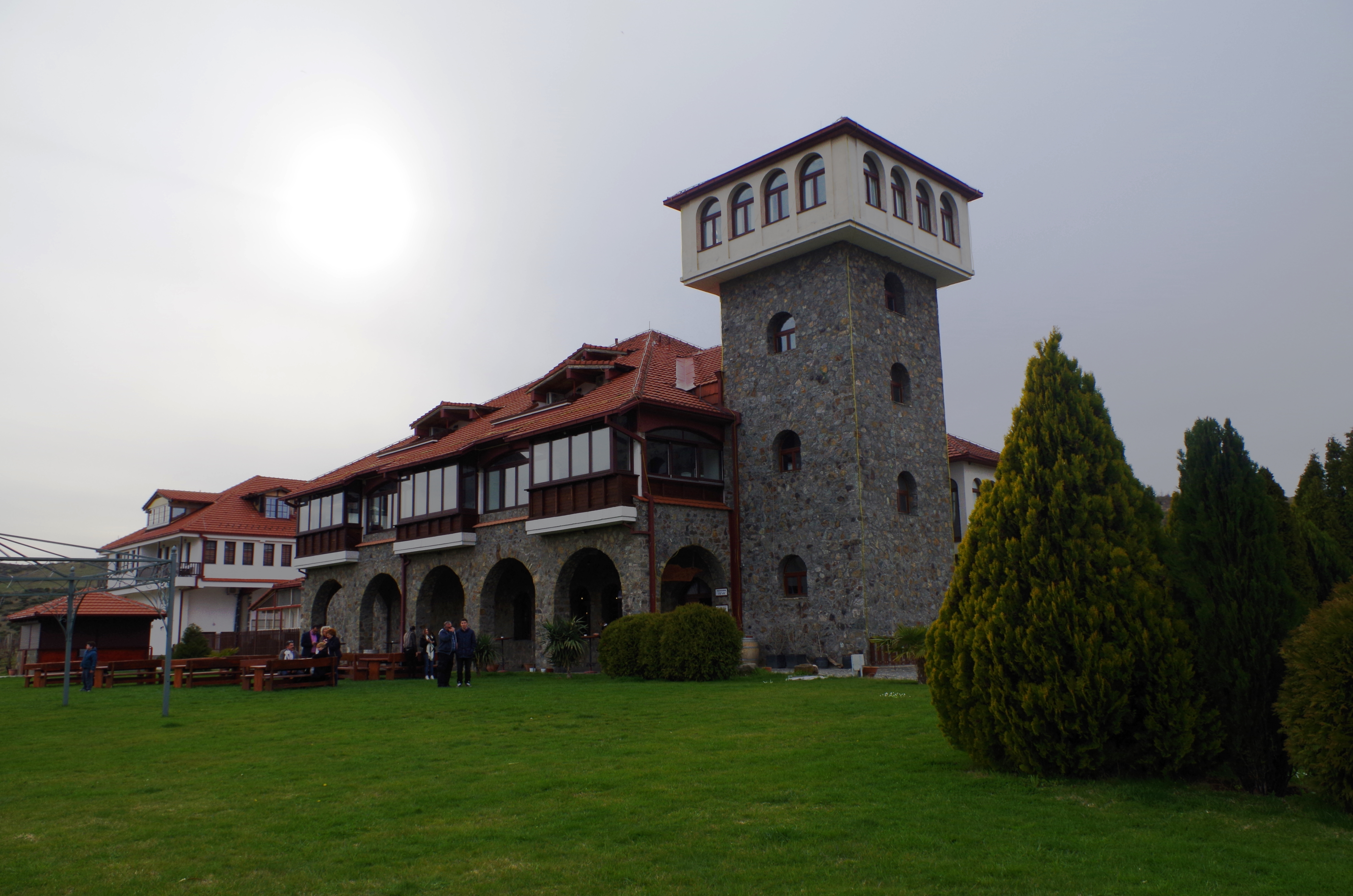 Winery "Popova Kula", near Demir Kapija